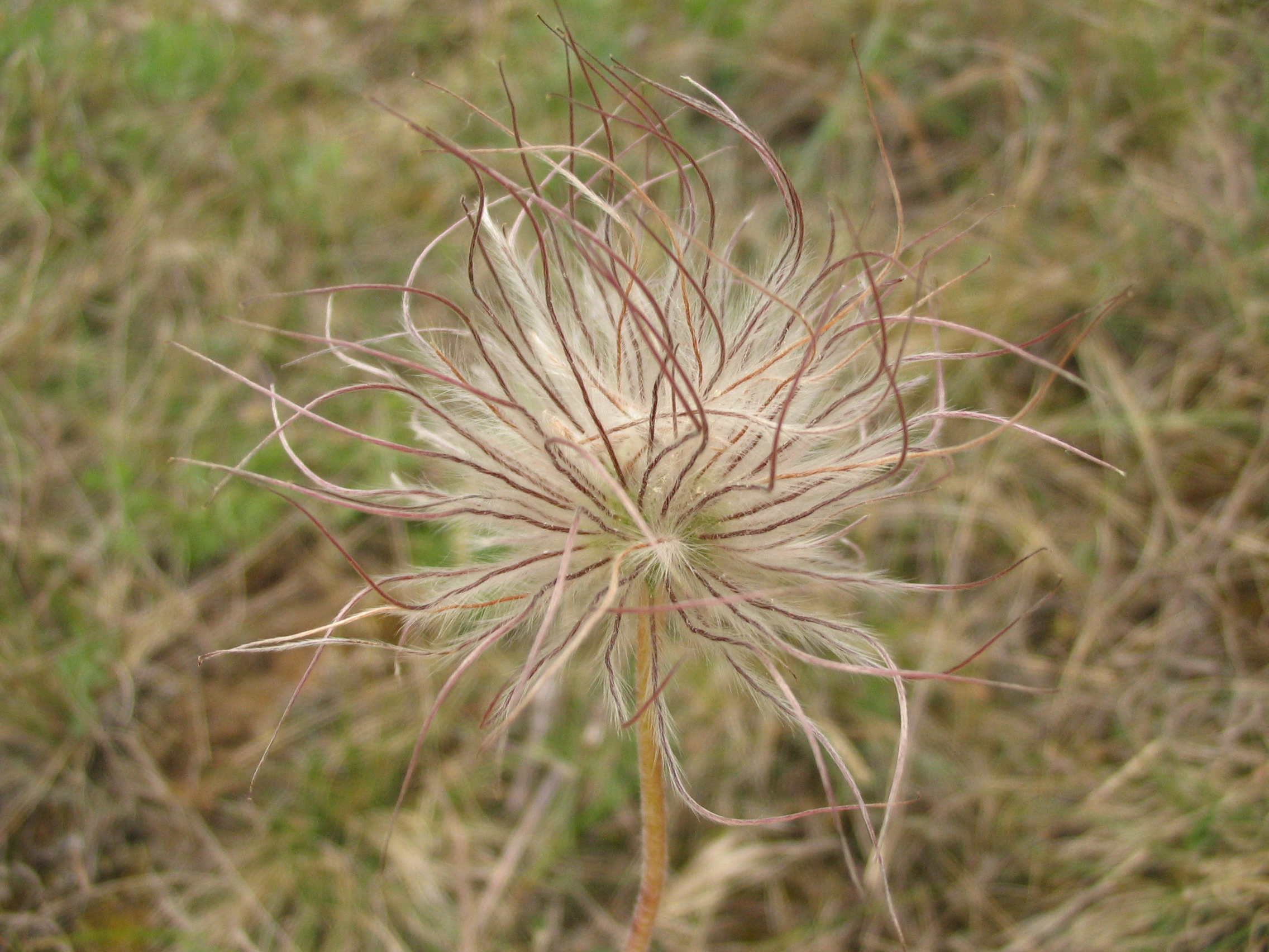 A photo taken by myself. Fruiting Hungarian anemone in the Nyírség, North-East Hungary. Date: 2007.05.10.